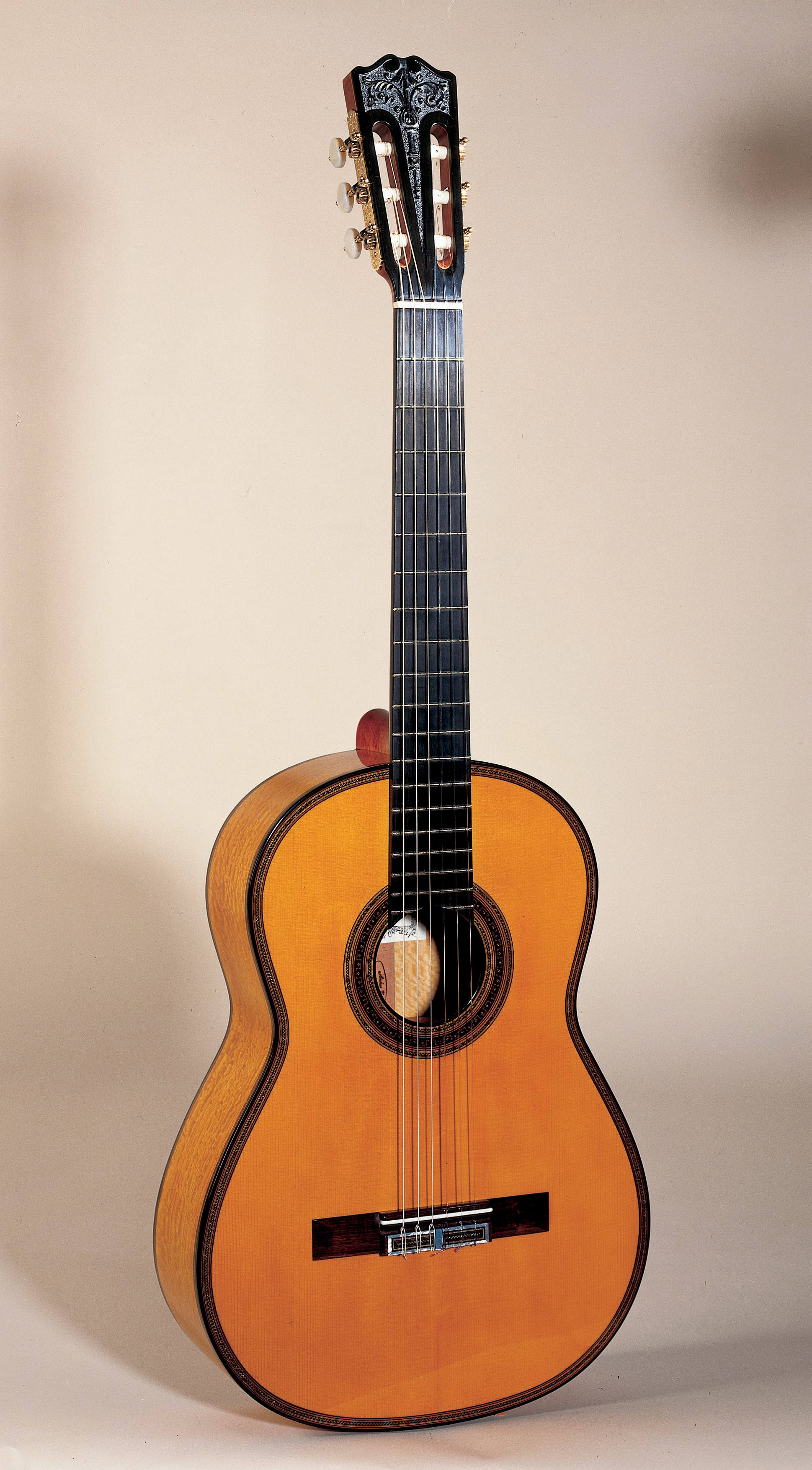 Andrea Tacchi Simplicio Repica Guitar.